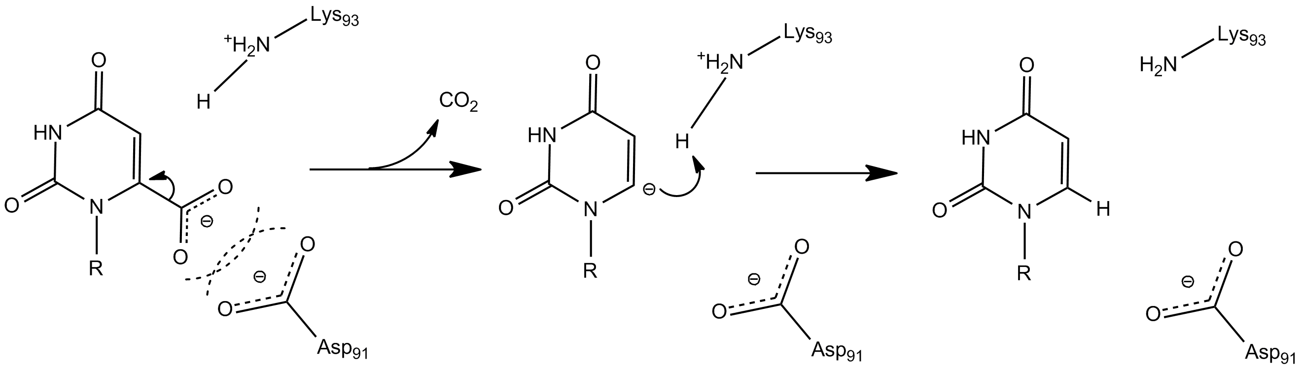 Reaction schematic for the mechanism of OMPDC catalysis through a putative carbanion transition state intermediate.